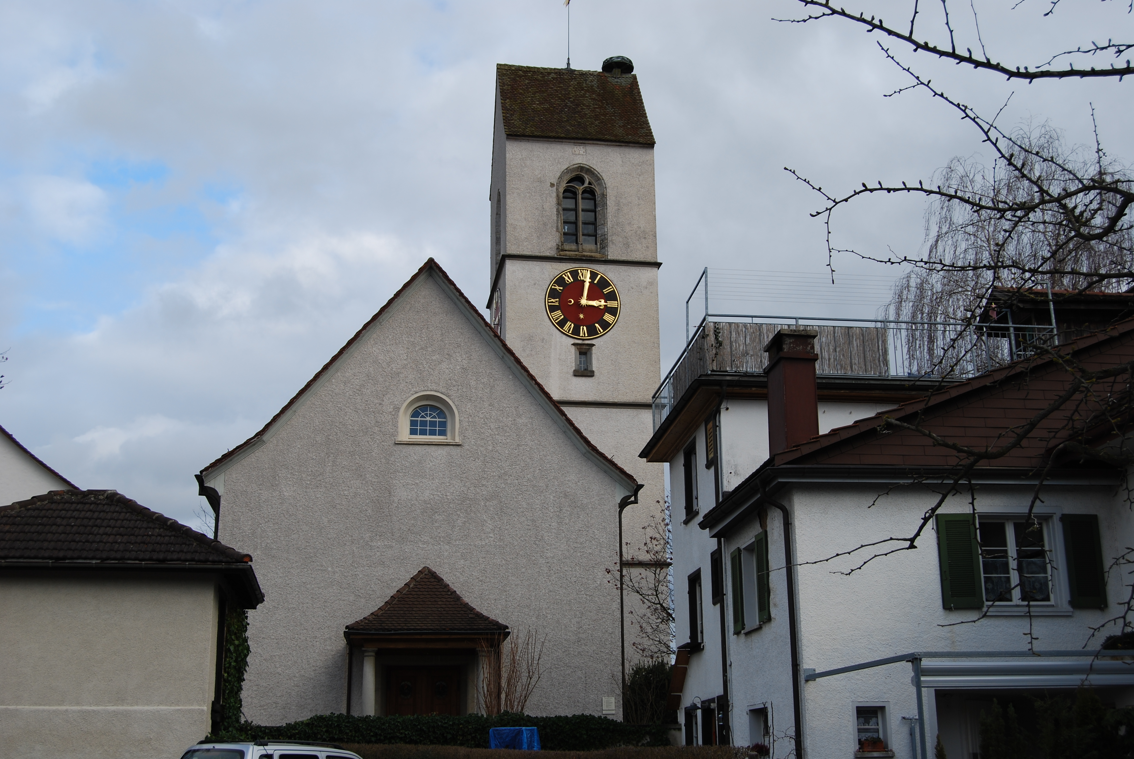 Church of Wiesendangen, canton of Zürich, SwitzerlandEsperanto: Preĝejo de Wiesendangen, Kantono Zuriko, Svislando